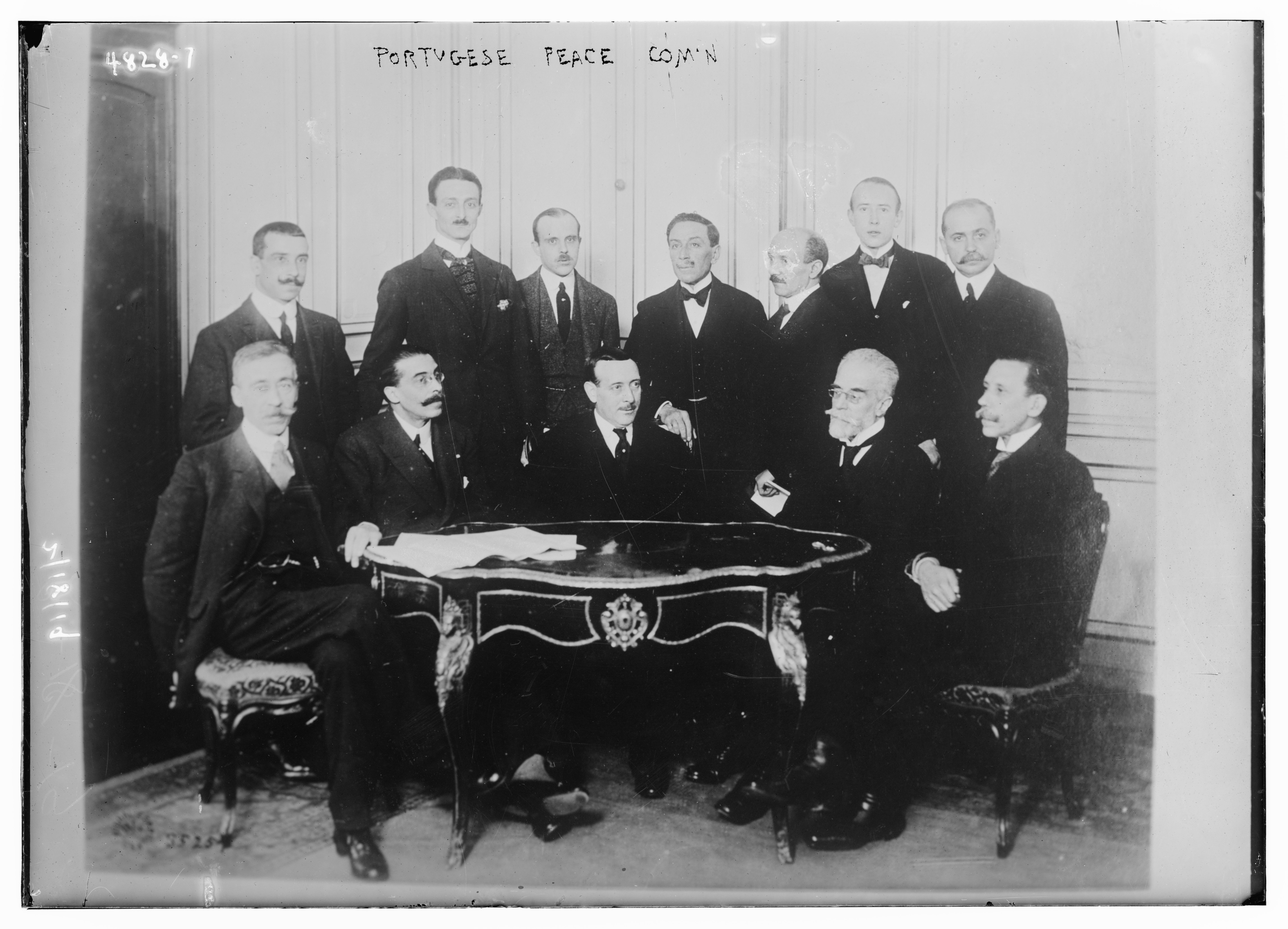 Title: Portuguese Peace Com'n Abstract/medium: 1 negative : glass ; 5 x 7 in. or smaller.